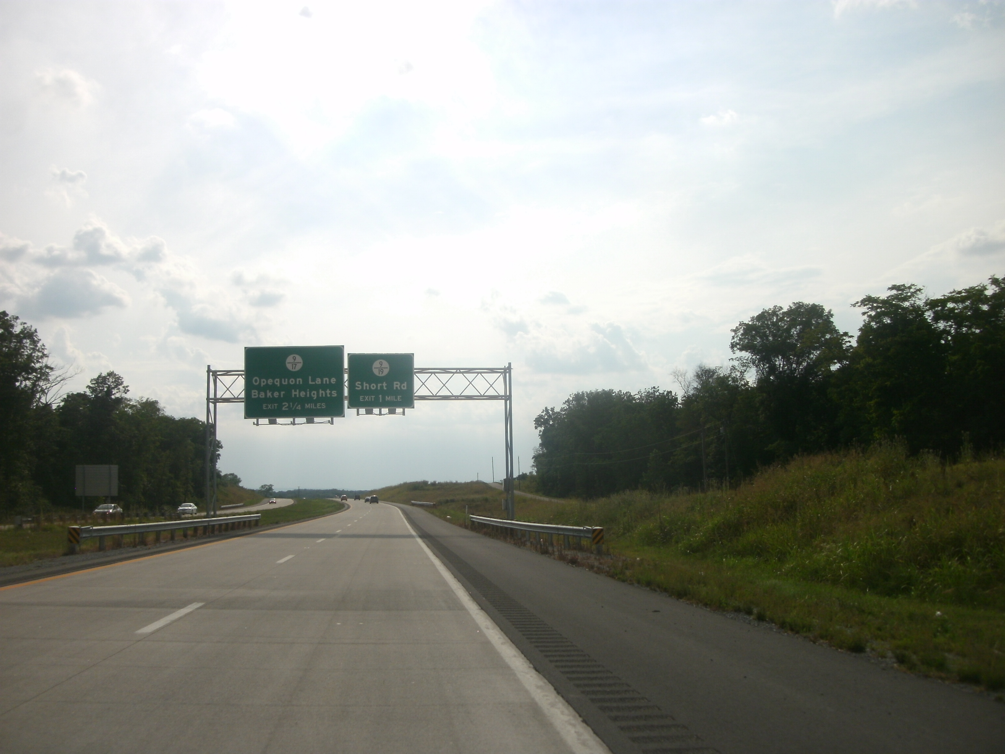 West Virginia State Route 9 westbound approaching two county routes in Berkeley County, West Virginia.